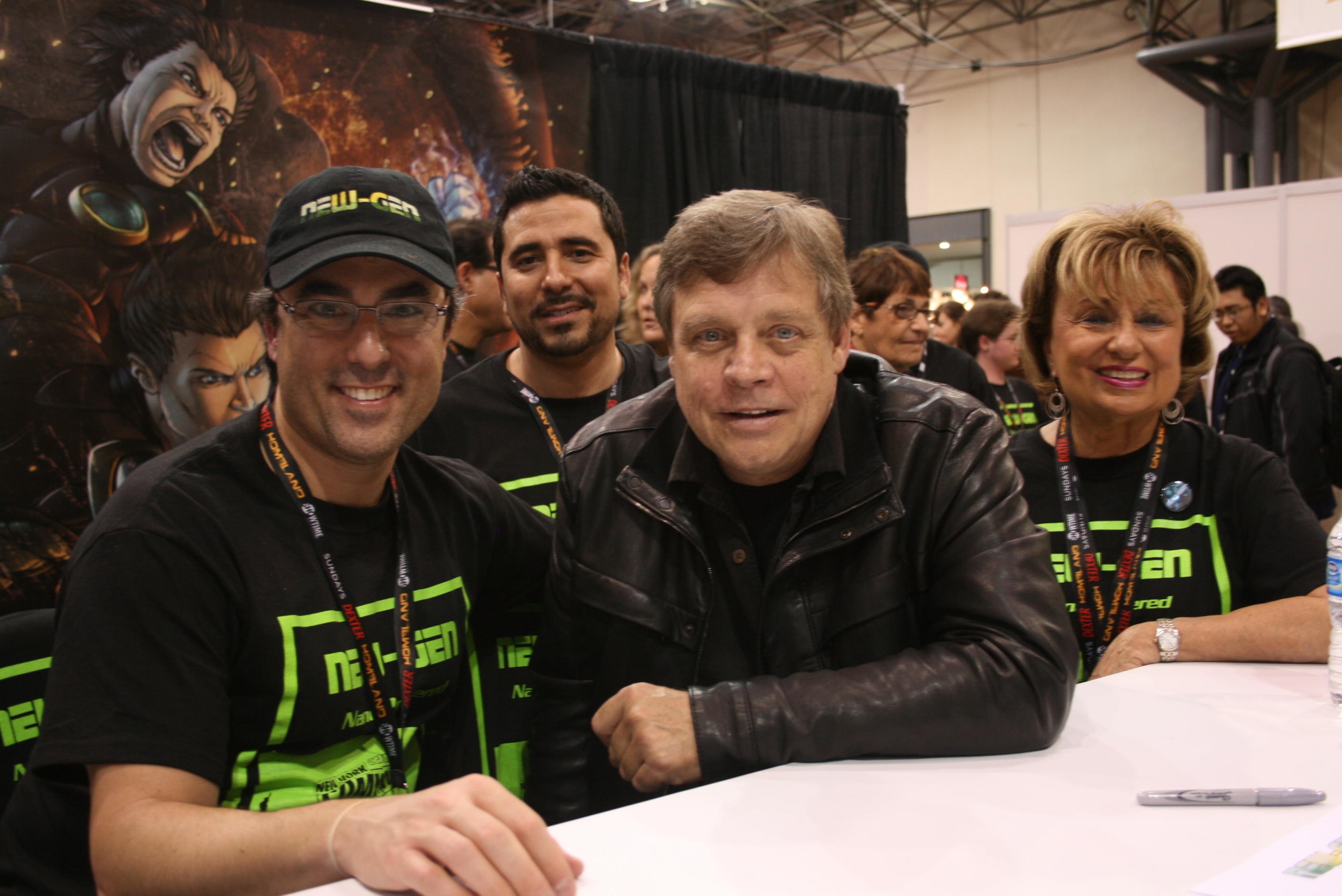 NEW-GEN Creators J.D. Matonti, Chris Matonti, and Julia Coppola with NEW-GEN Creative Consultant Mark Hamil at New York Comic Con 2011.